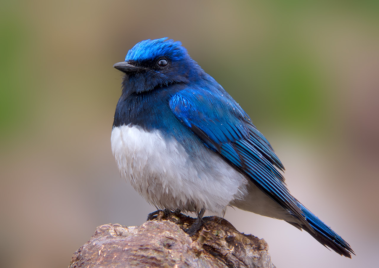 Blue-and-white Flycatcher Cyanoptila cyanomelana, Hokkaido, Japan